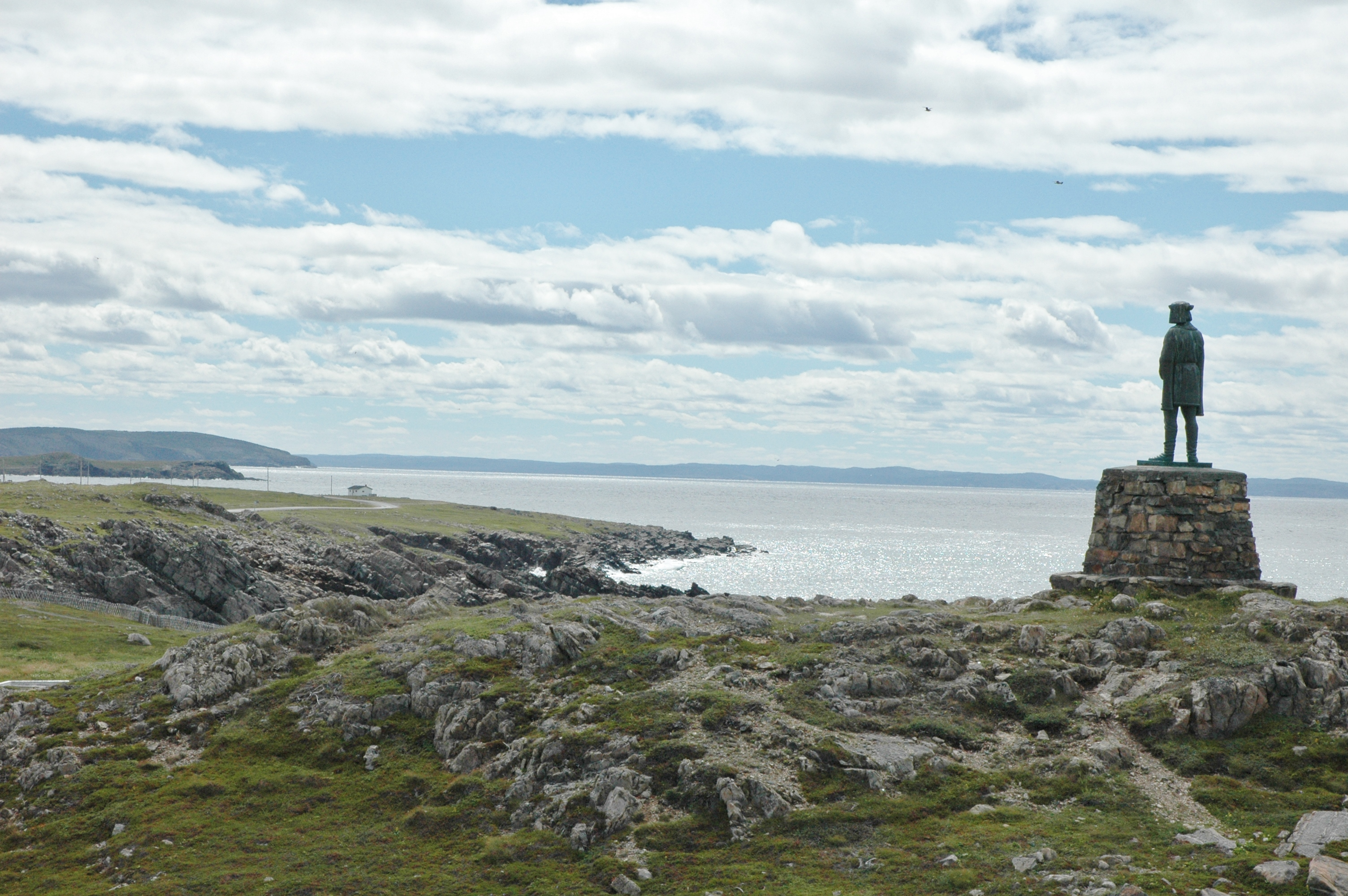 A statue of John Cabot gazing across Bonavista Bay from Cape Bonavista, the place where, according to tradition, he first sighted land. Photo: William Gilbert (chief archeologist with the Baccalieu Trail Heritage Corporation: Evan T. Jones and Margaret M. Condon, Cabot and Bristol's Age of Discovery: The Bristol Discovery Voyages 1480-1508 (University of Bristol, Nov. 2016), p. 44.